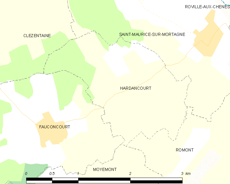 Map of French municipality Hardancourt